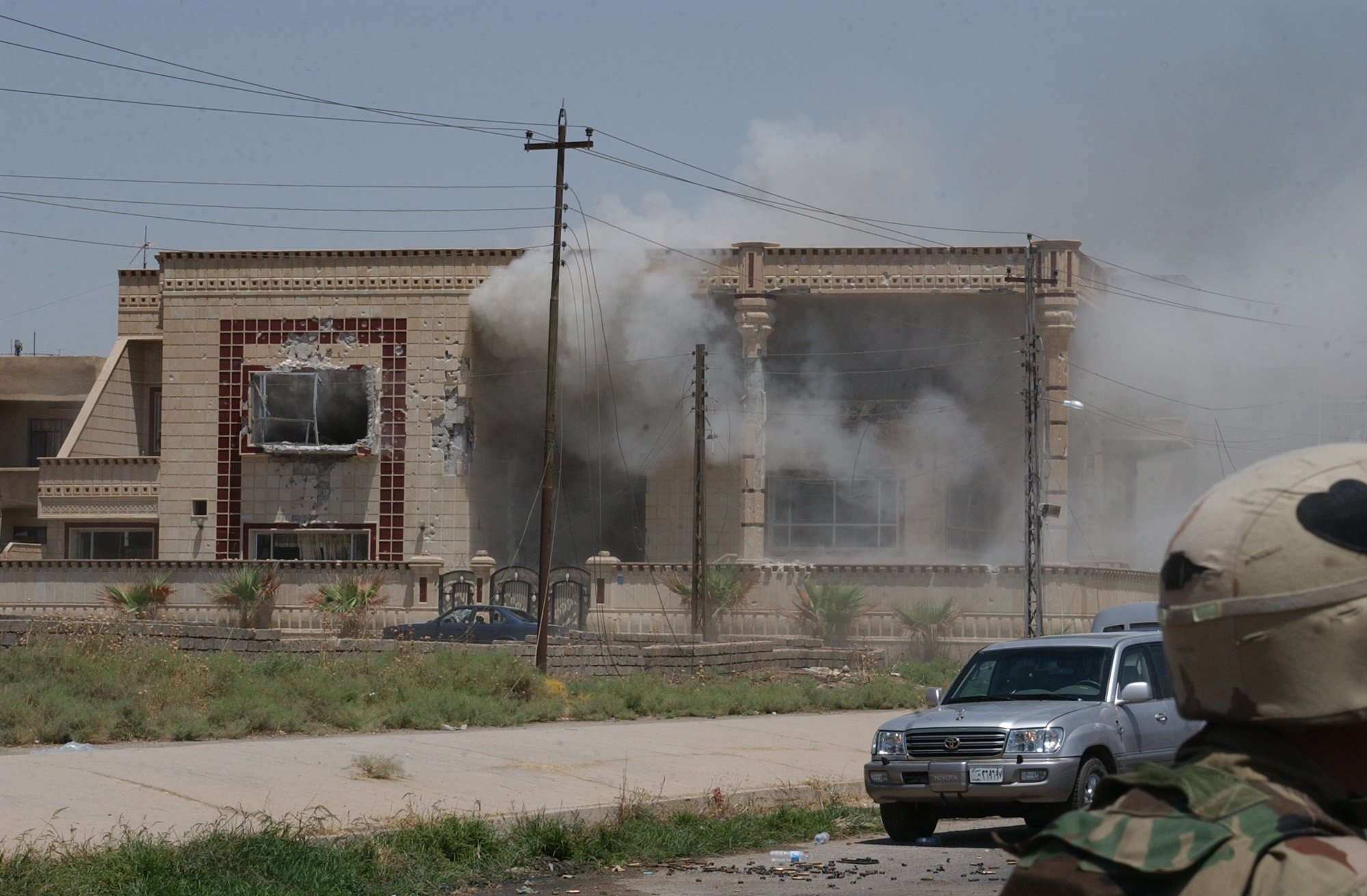 A cloud of dust and smoke billows out from a building hit with a TOW missile launched by soldiers of the Army's 101st Airborne Division (Air Assault) on July 22, 2003, in Mosul, Iraq. Saddam Hussein's sons Qusay and Uday were killed in a gun battle as they resisted efforts by coalition forces to apprehend and detain them.